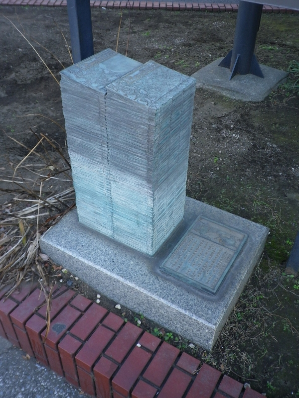 Monument of Kyokutei Bakin's birthplace in Koto, Tokyo